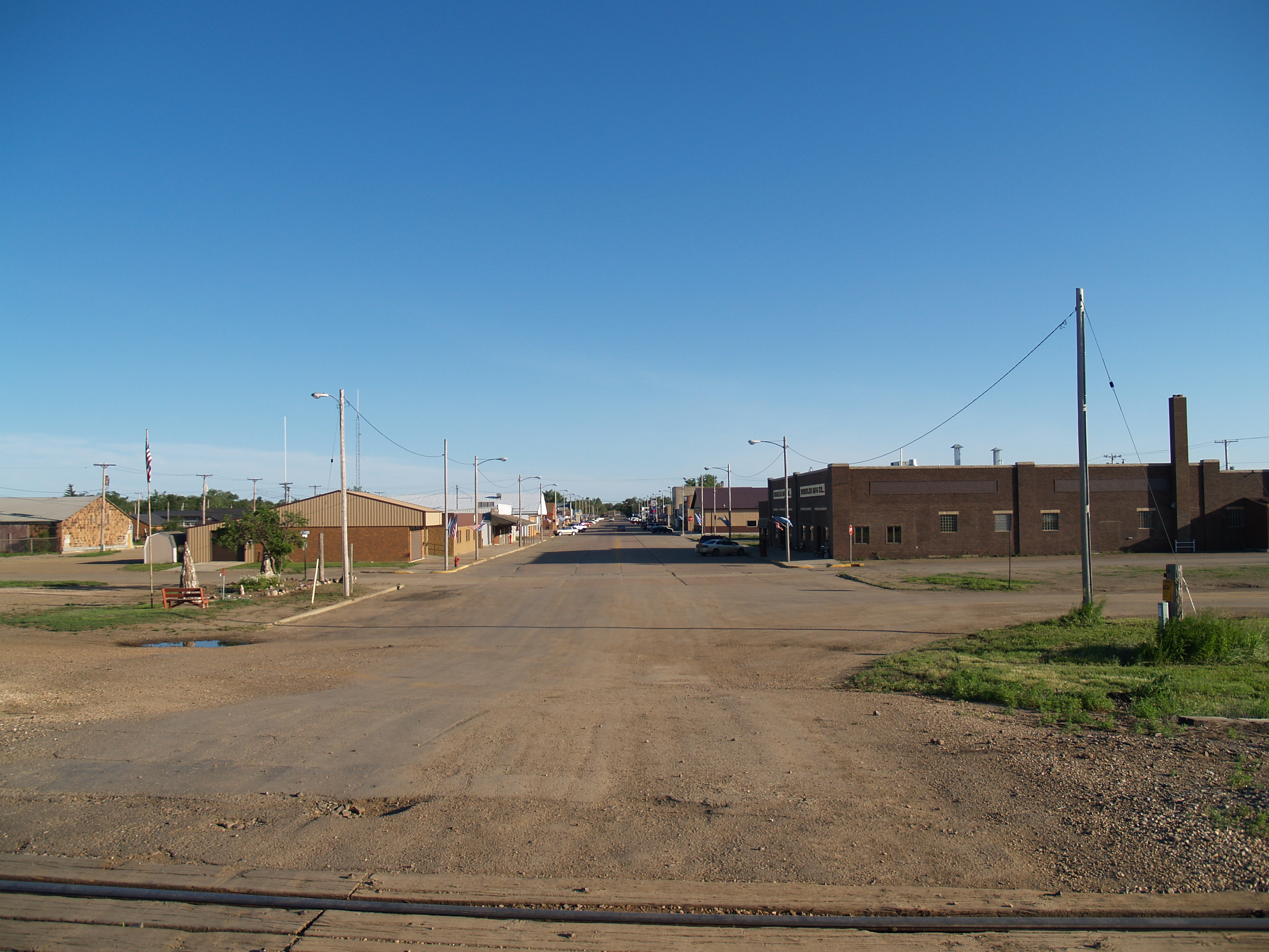 Lemmon, South Dakota. From .